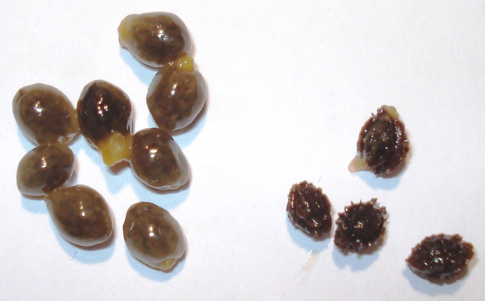 Carica papaya - Seeds - with and without skin.jpg